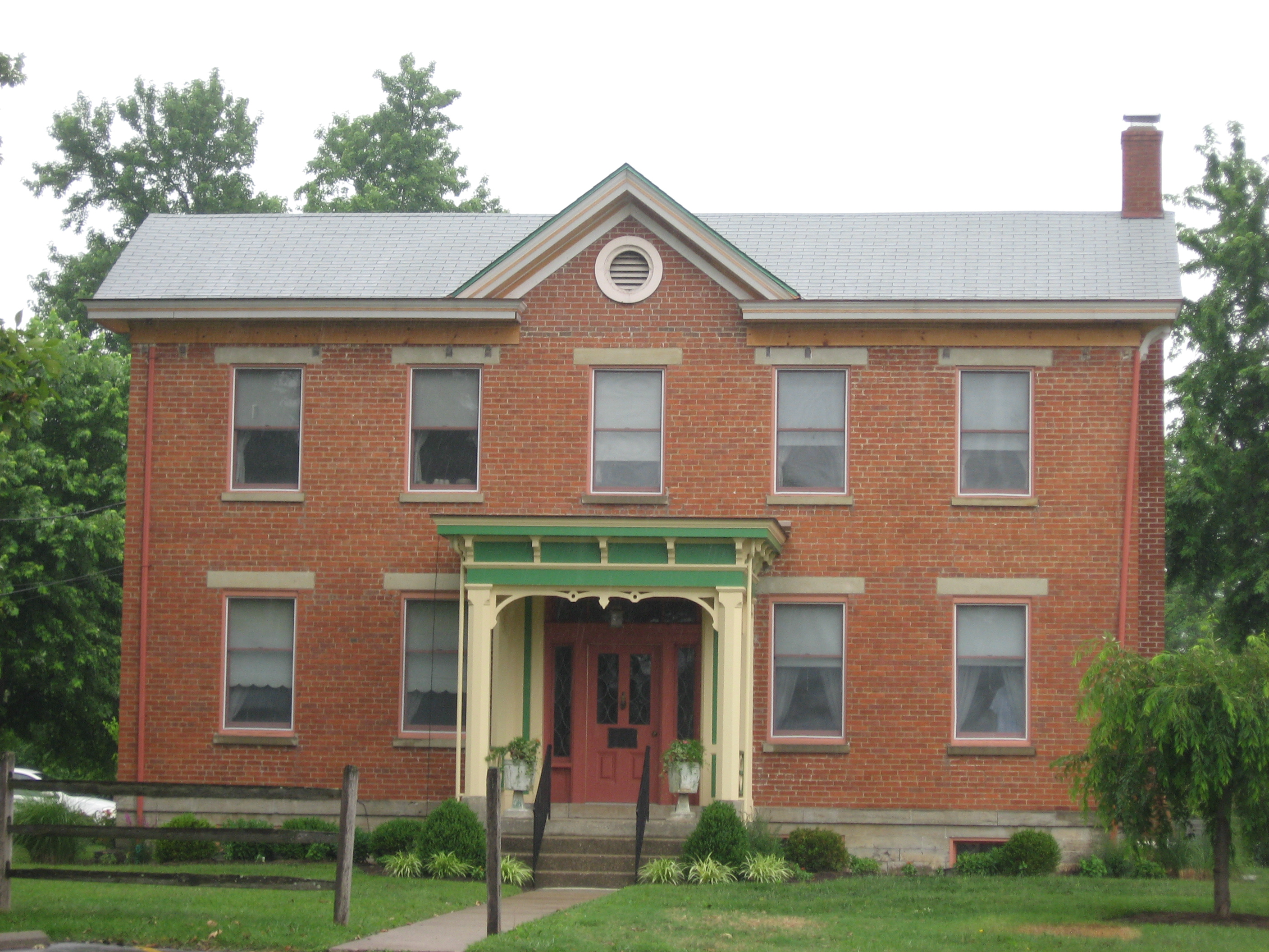 Front of the Martin House, located at 6500 Beechmont Avenue (State Route 125) in the Mount Washington neighborhood of Cincinnati, Ohio, United States. Built in 1847, it is listed on the National Register of Historic Places.